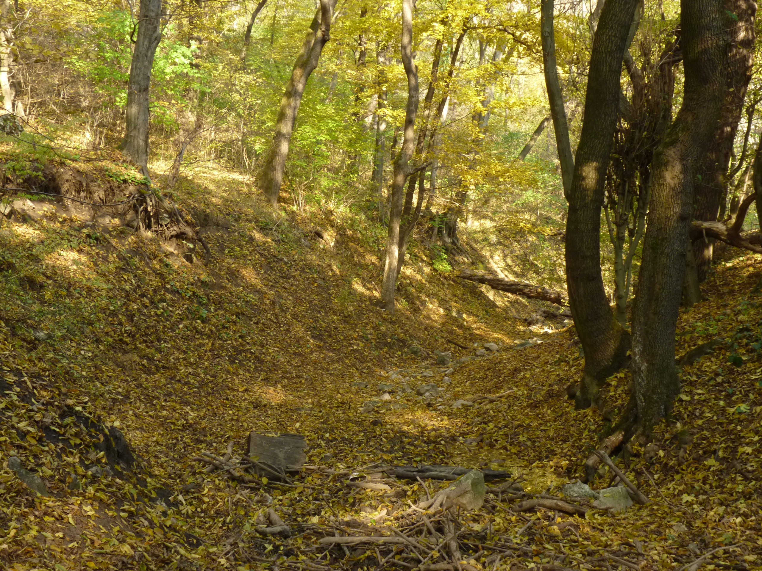 Ördög-árok stream in Remete Valley